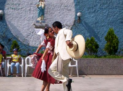 Marinera Norteña, the most representative dance from Peru. Mostly perfomed in the Coast. This is considered the most sensual dance in Peru and is the most representative of Trujillo city and one of the most typical dance from Peru.